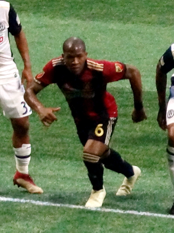 Darlington Nagbe playing for Atlanta United on June 2, 2018